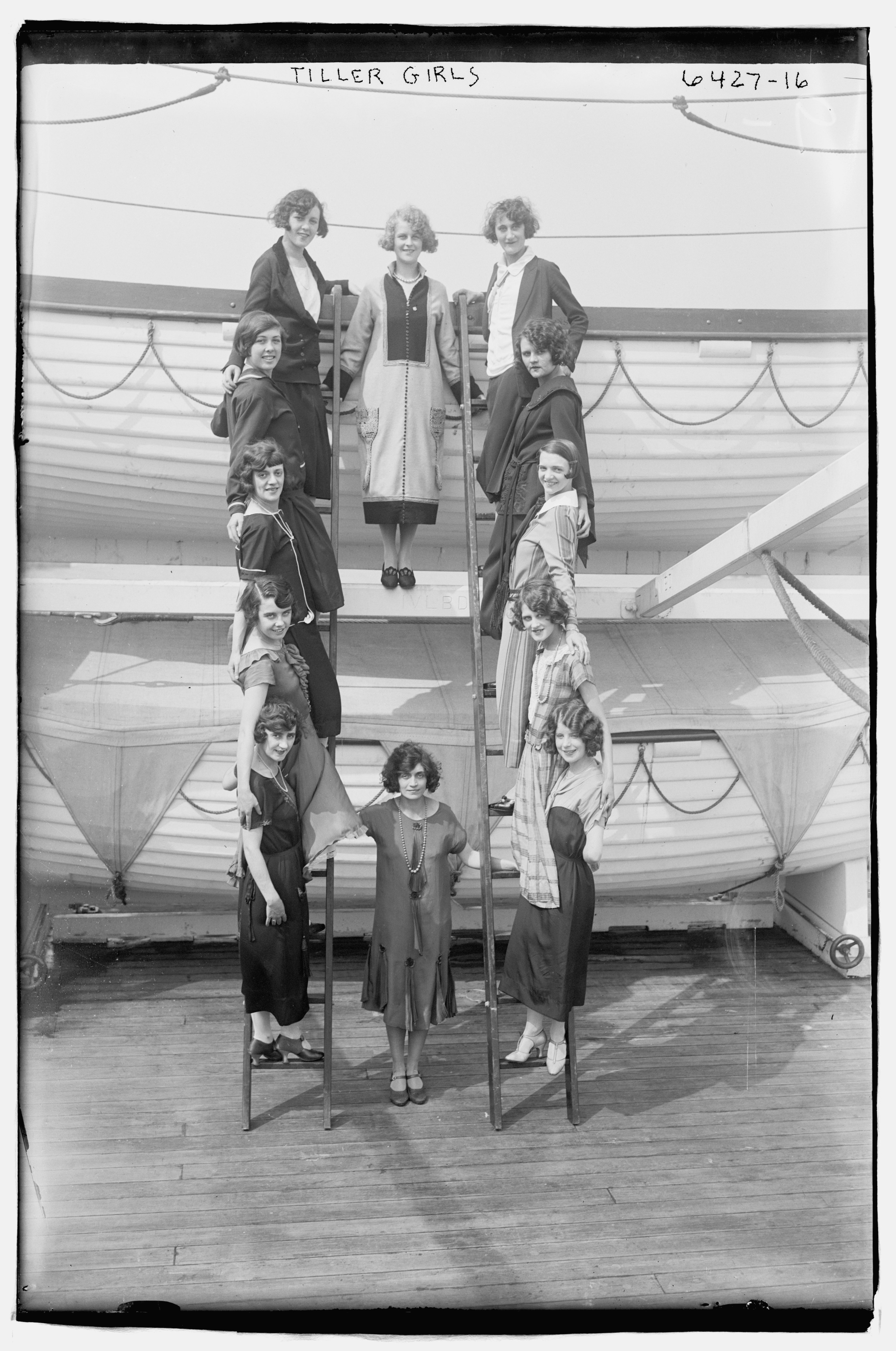 Title: Tiller Girls Abstract/medium: 1 negative : glass ; 5 x 7 in. or smaller.